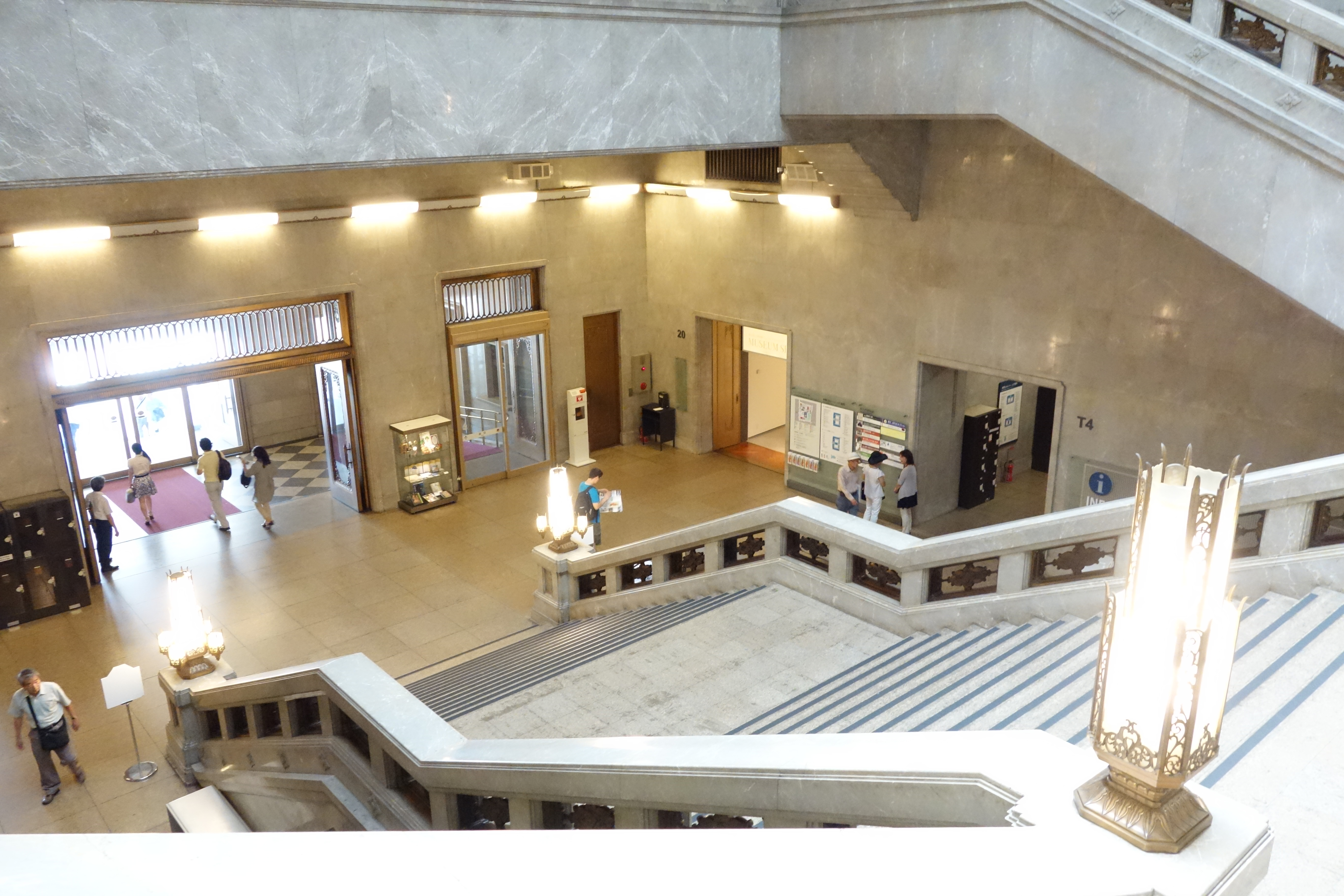 Interior view of stairway hall - Tokyo National Museum, Tokyo, Japan.